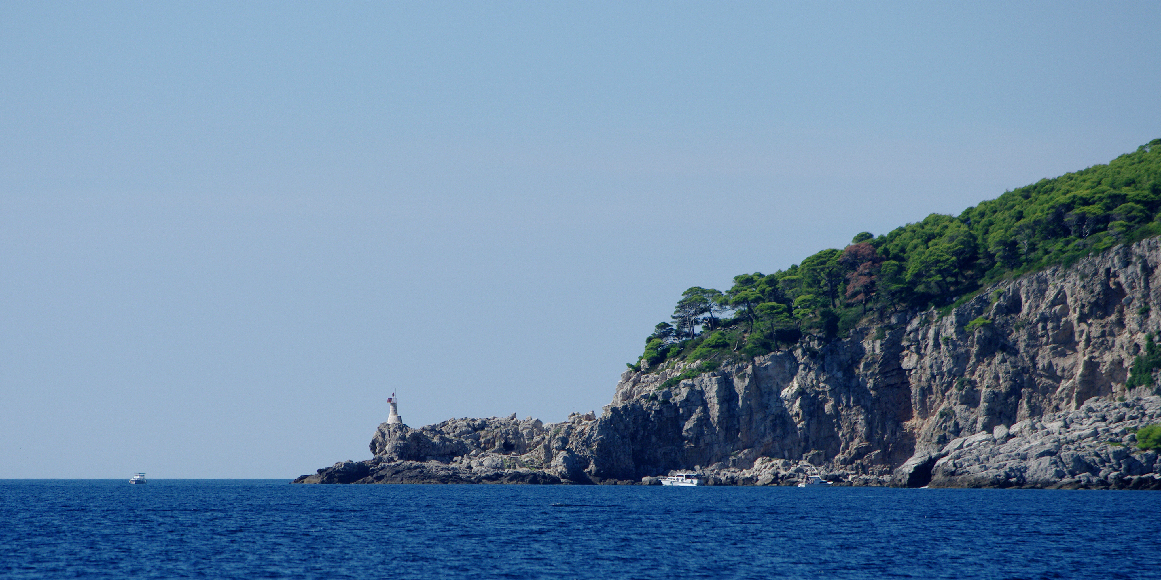 The Lighthouse of Kolocep